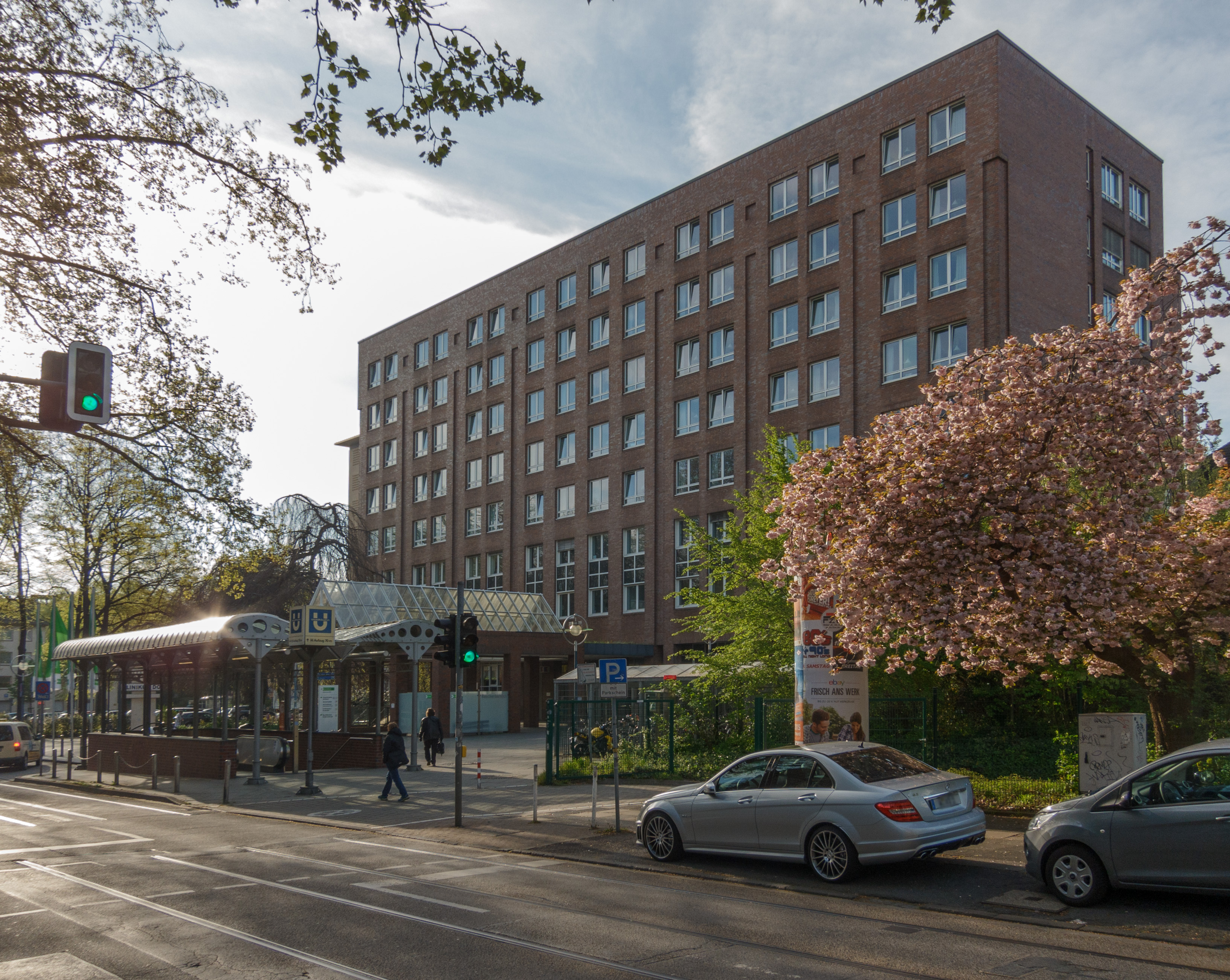 Klinikum Dortmund, city centre, building A1 and main entrance